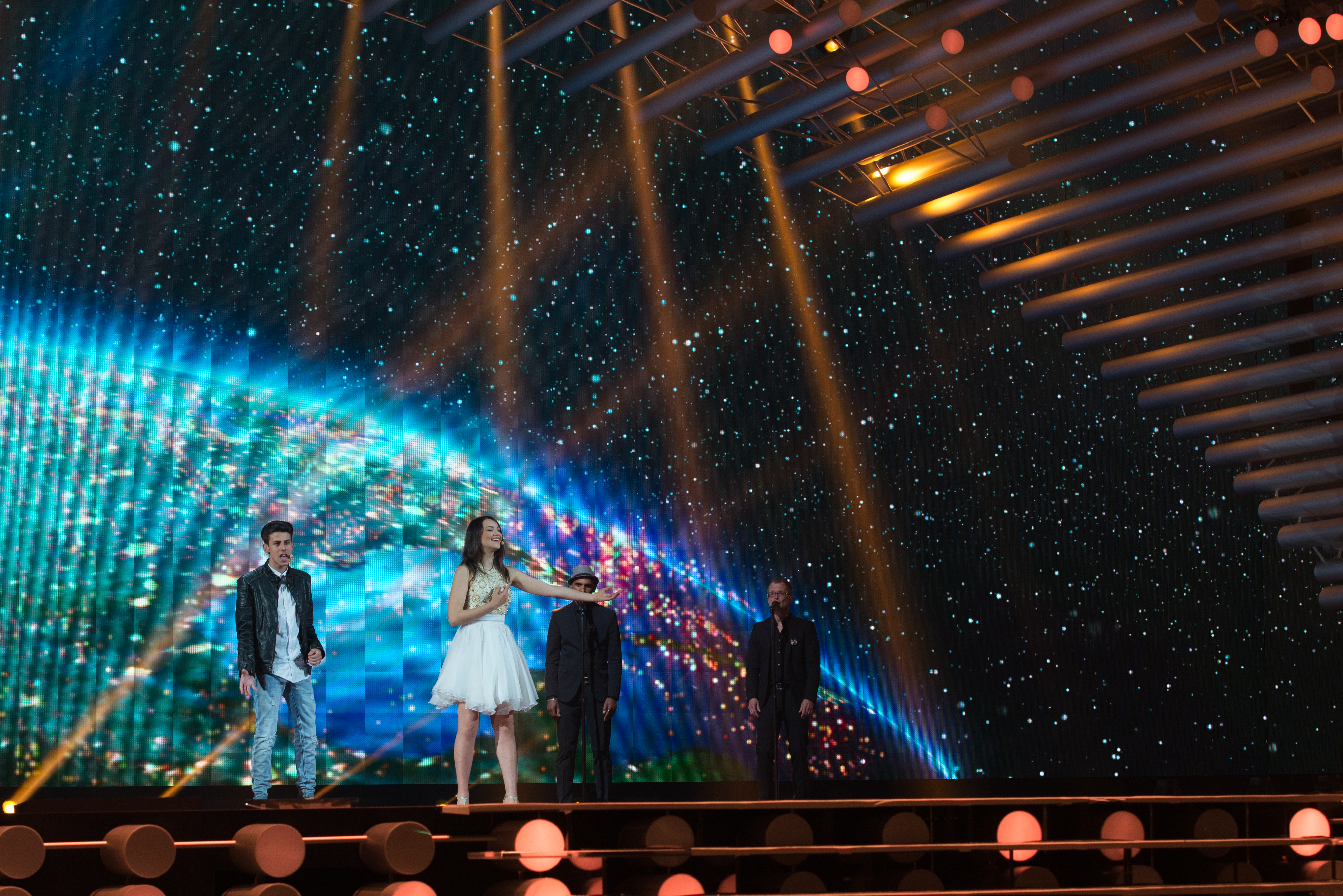 Eurovision Song Contest Vienna 2015: Michele Perniola & Anita Simoncini